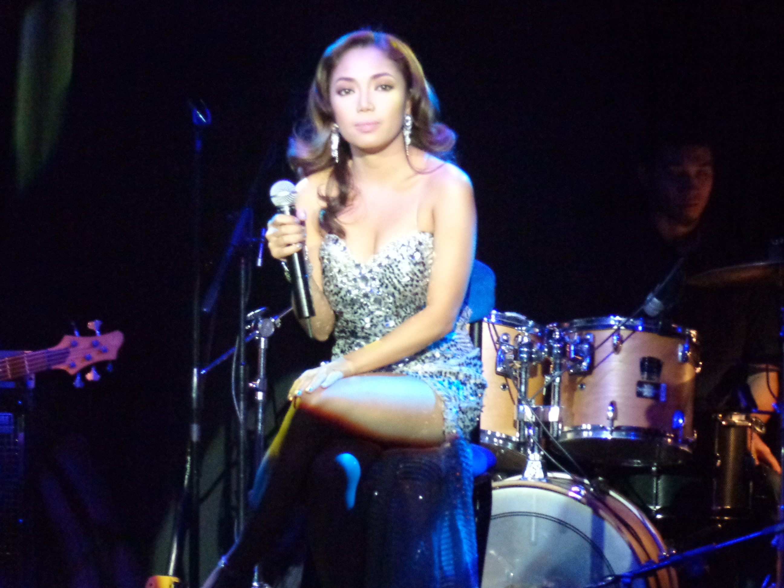 E:\DCIM\100MSDCF\DSC00585.JPG Taken using Sony Cyber-Shot DSC-H90